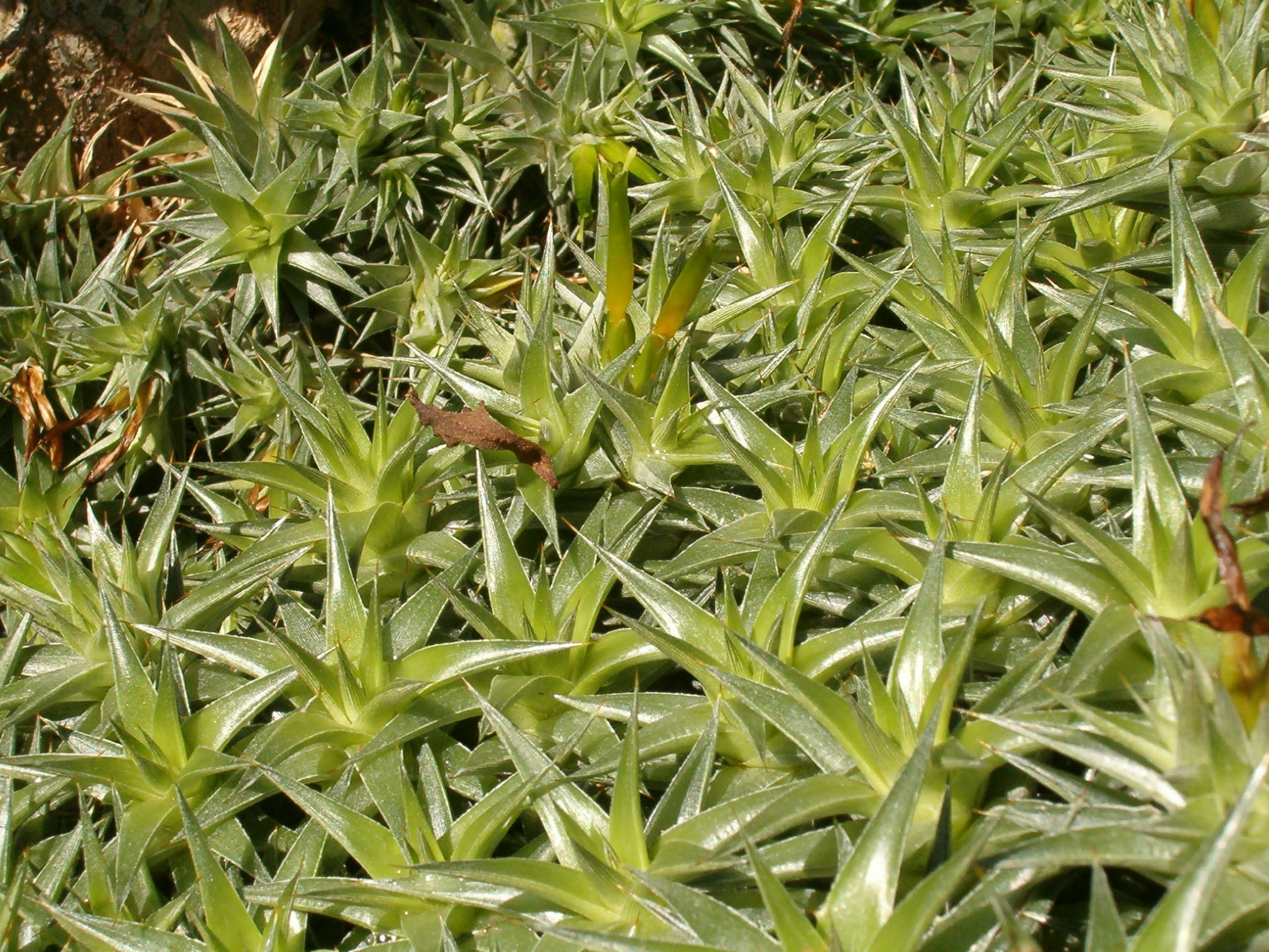 Name Deuterocohnia lorentziana Genus Deuterocohnia Family Bromeliaceae Syn. Abromeitiella lorentziana new name by Spencer & Smith 1993 Location Berlin Botanical Gardens Berlin-Dahlem